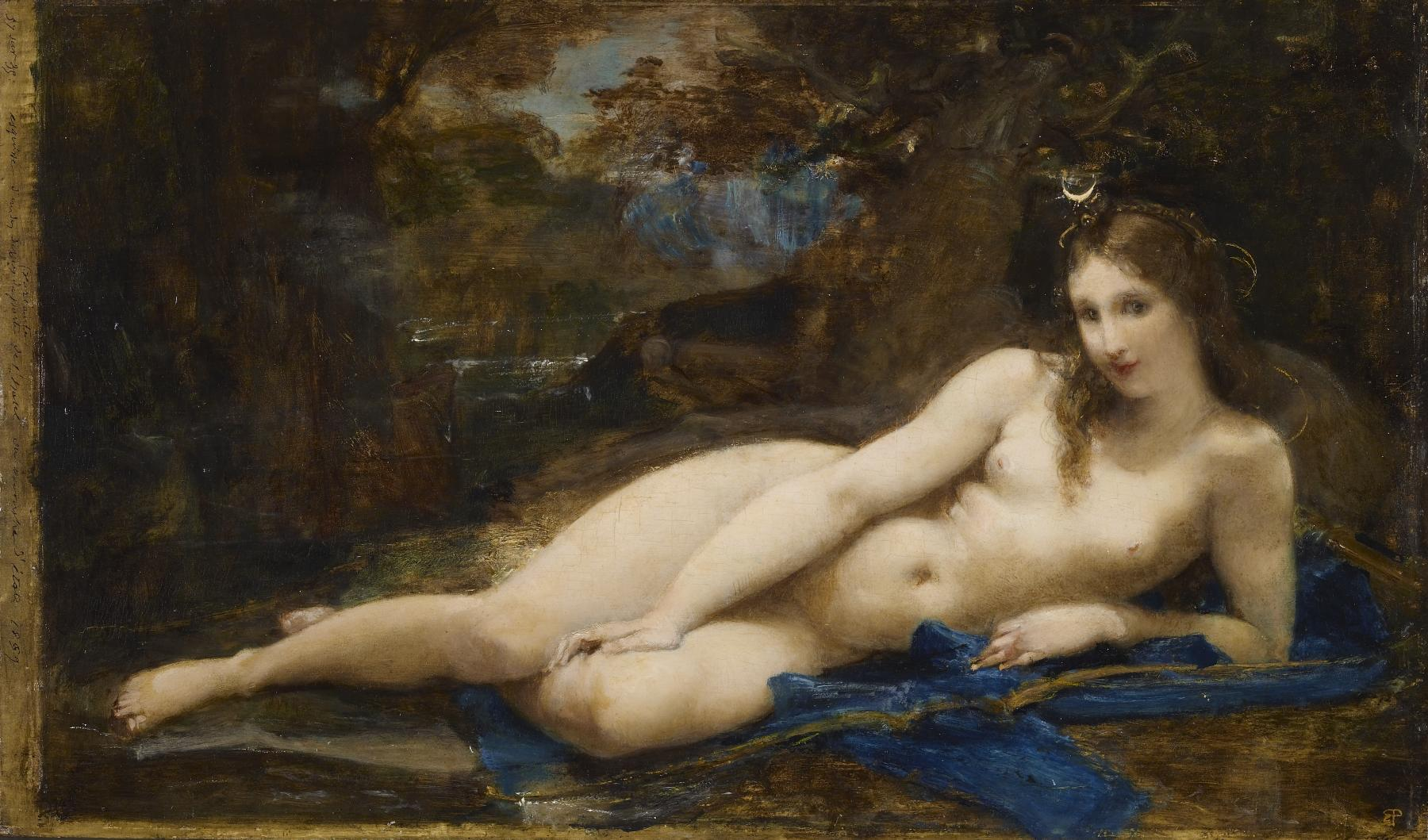 The nude goddess, identified by the crescent moon in her hair and the bow and quiver at her side, reclines on a blue drapery in front of a recumbent stag in a wooded glade. An early inscription identifies this painting as a variant sketch for an overdoor in the hôtel of Achille Fould, the Minister of State. The hôtel, on the rue du Faubourg-Saint-Honoré, was acquired by the Duc d'Aumale in 1872, and its decor was transferred to the Château of Chantilly six years later. The overdoor, "Diane au repos," and another, "Venus jouant avec l'Amour," were both mounted in the Galerie des Cerfs. The actual overdoor is painted in "grisaille" unlike our sketch which is in naturalistic colors. In the overdoor the majestic stag is an integral part of the composition, whereas in this sketch he is barely discernible in the right background. This composition illustrates the artist's practice of imparting to his traditional subjects an air of modishness or coquetry, that may have resulted from his occasional use of professional beauties as models. The figure of Diana reposing in the sketch and the overdoor bears a striking resemblance to Blanche D'Antigny, an actress who at the age of eighteen modeled for Baudry's famous "The Penitent Madeleine," painted about the same time and acquired by the State at the 1859 Salon for the Nantes Museum.